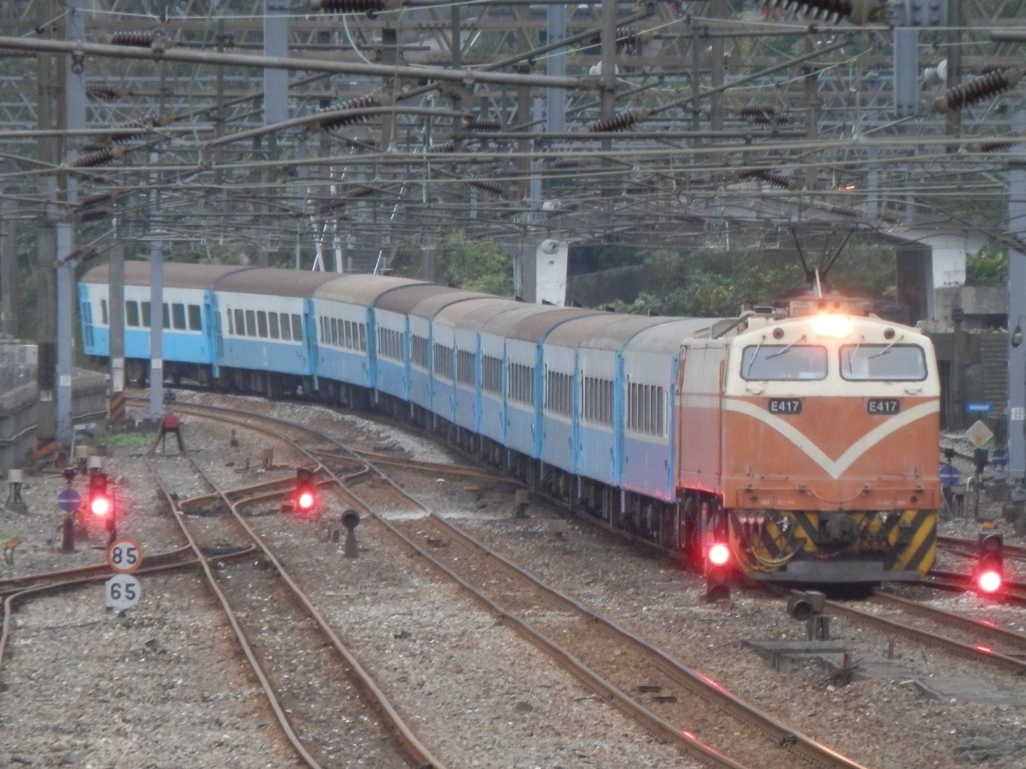 TRA Fu-Hsing Semi Express Electric Locomotive Type E400 at Houtong Station